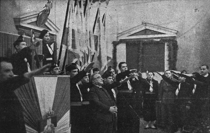 Young members of the Greek National Youth Organization EON hail in presence of Ioannis Metaxas